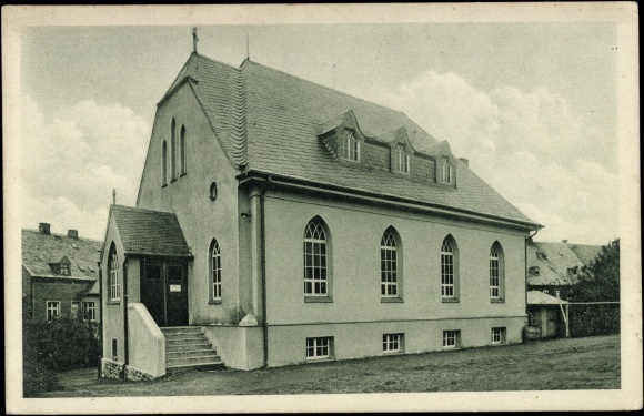 methodist church Zwoenitz 1920